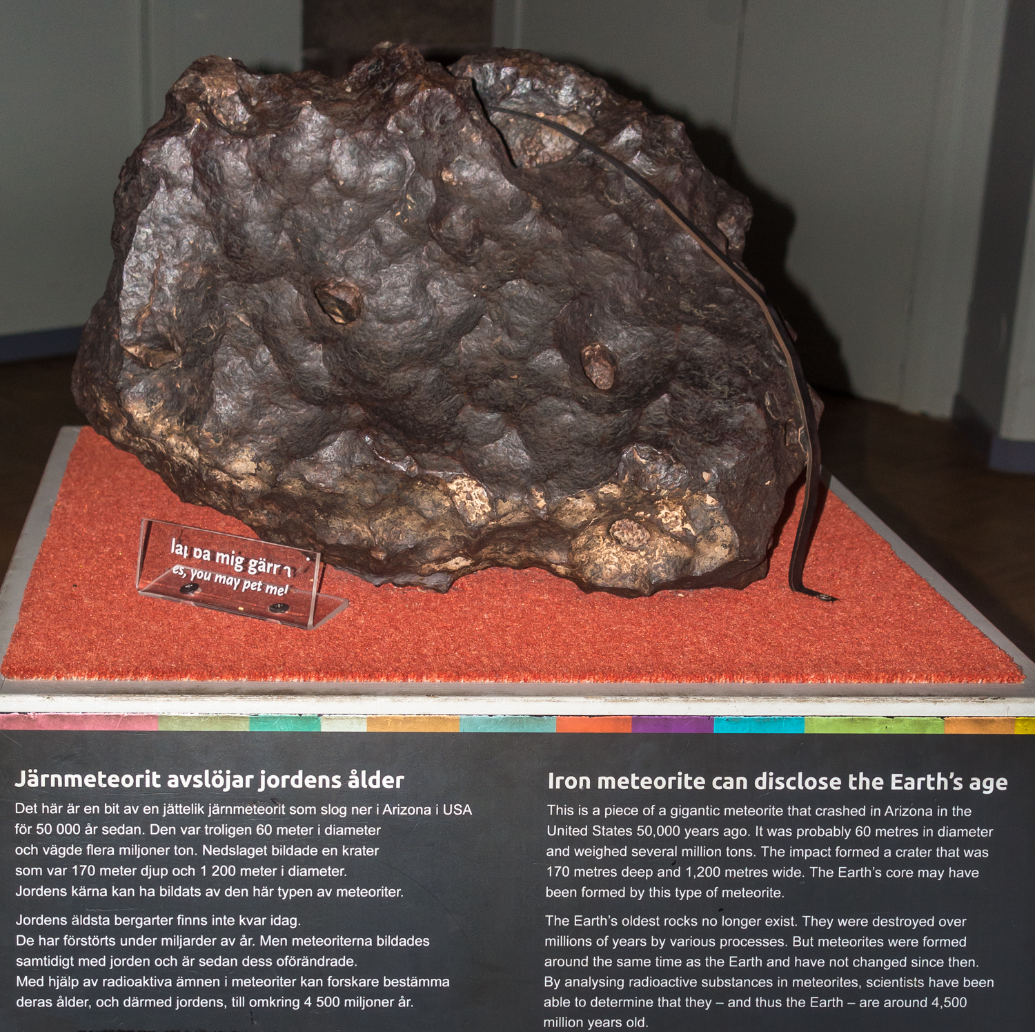 Iron meteorite from "Barringer Crater" , Arizona, USA. Swedish Museum of Natural History.